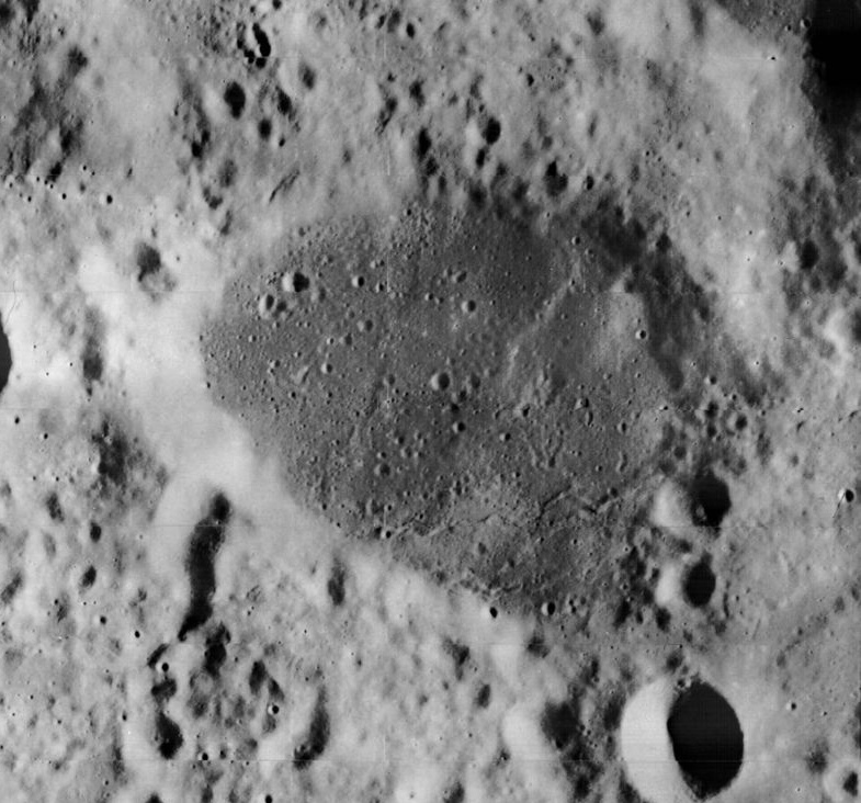 Schubert F crater (west of Schubert), on the moon, with north at top.